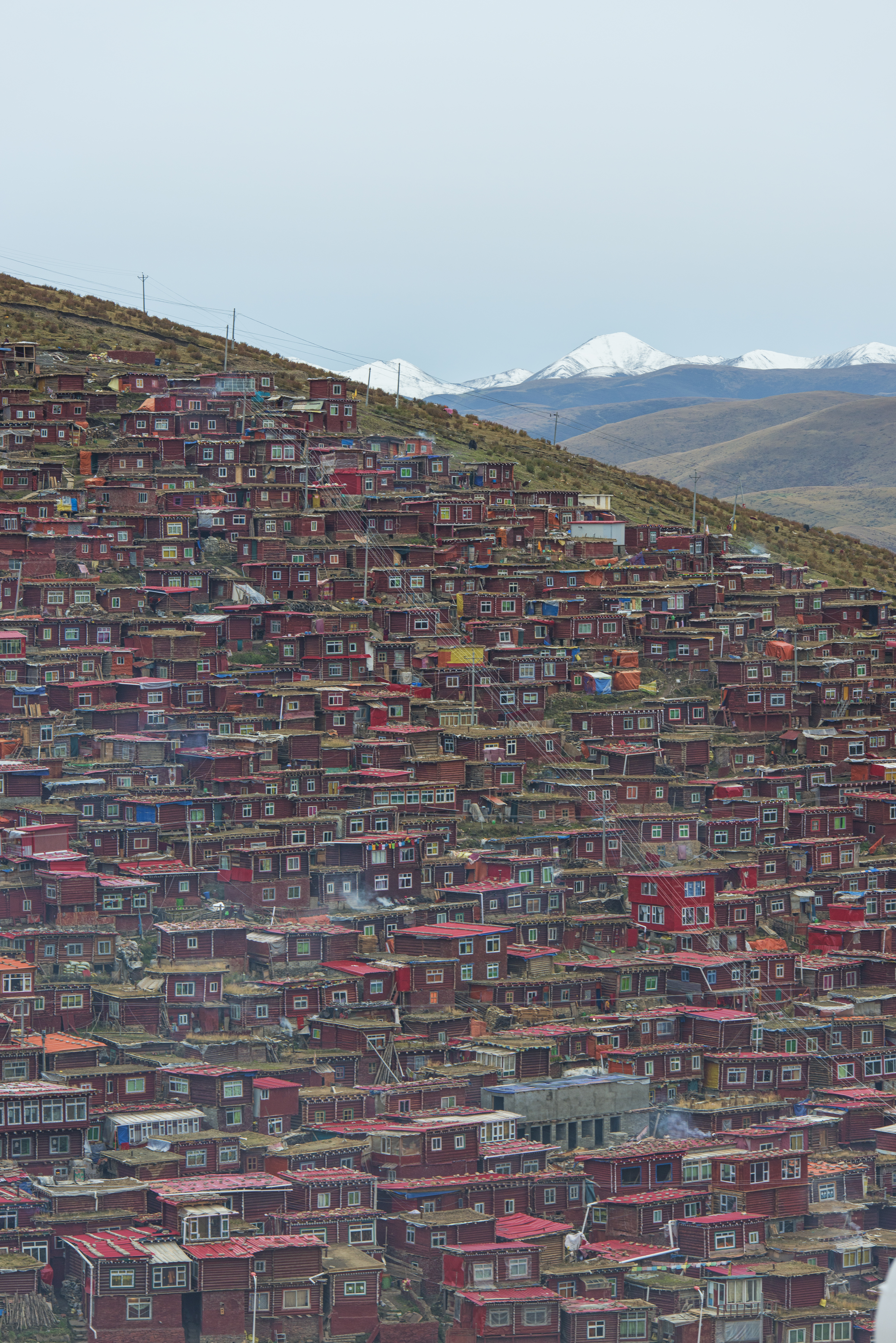 seda sertar tibet china monk buddhist 2013